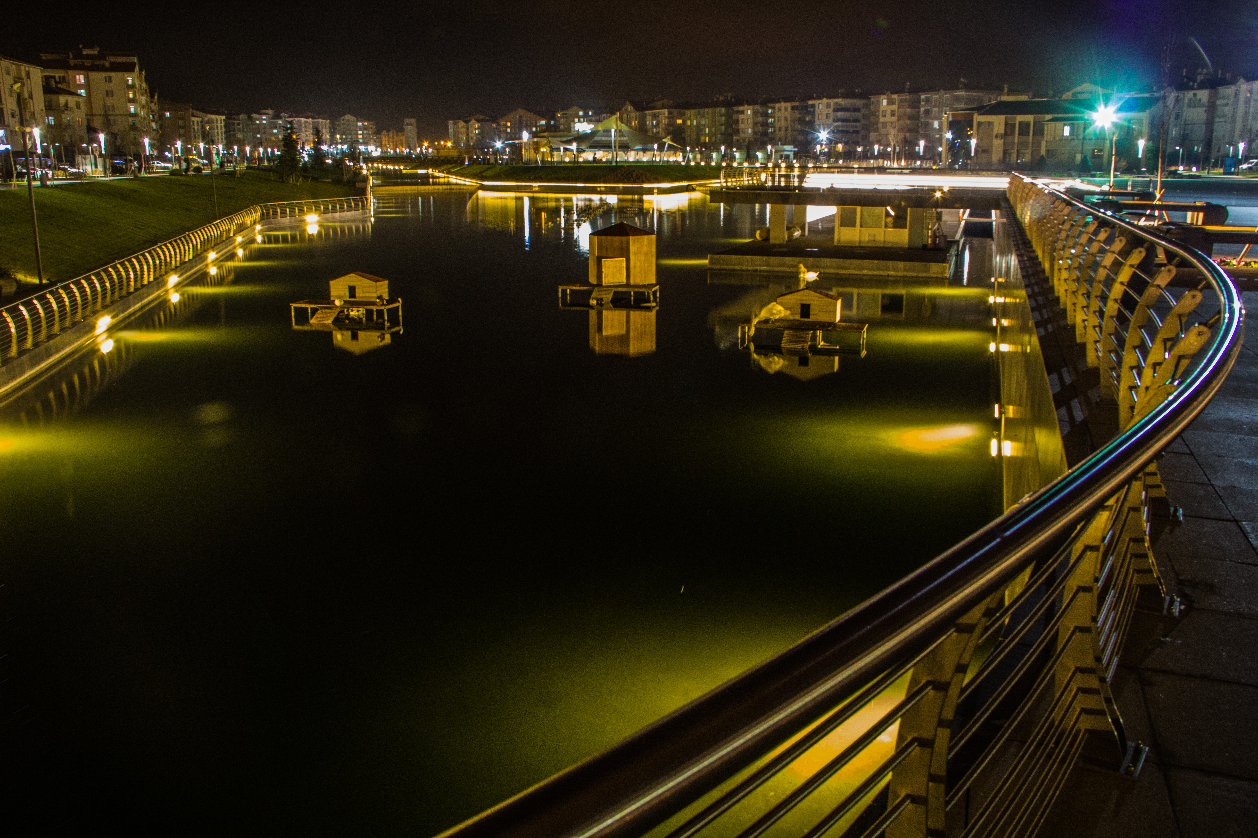 Kentpark at Night